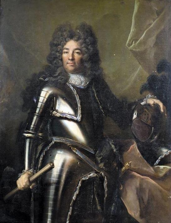 Portrait of Joachim Frederick, Duke of Schleswig-Holstein-Sonderburg-Plön (1668-1722)